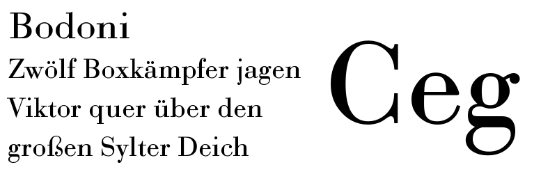 german pangram in typeface Bodoni